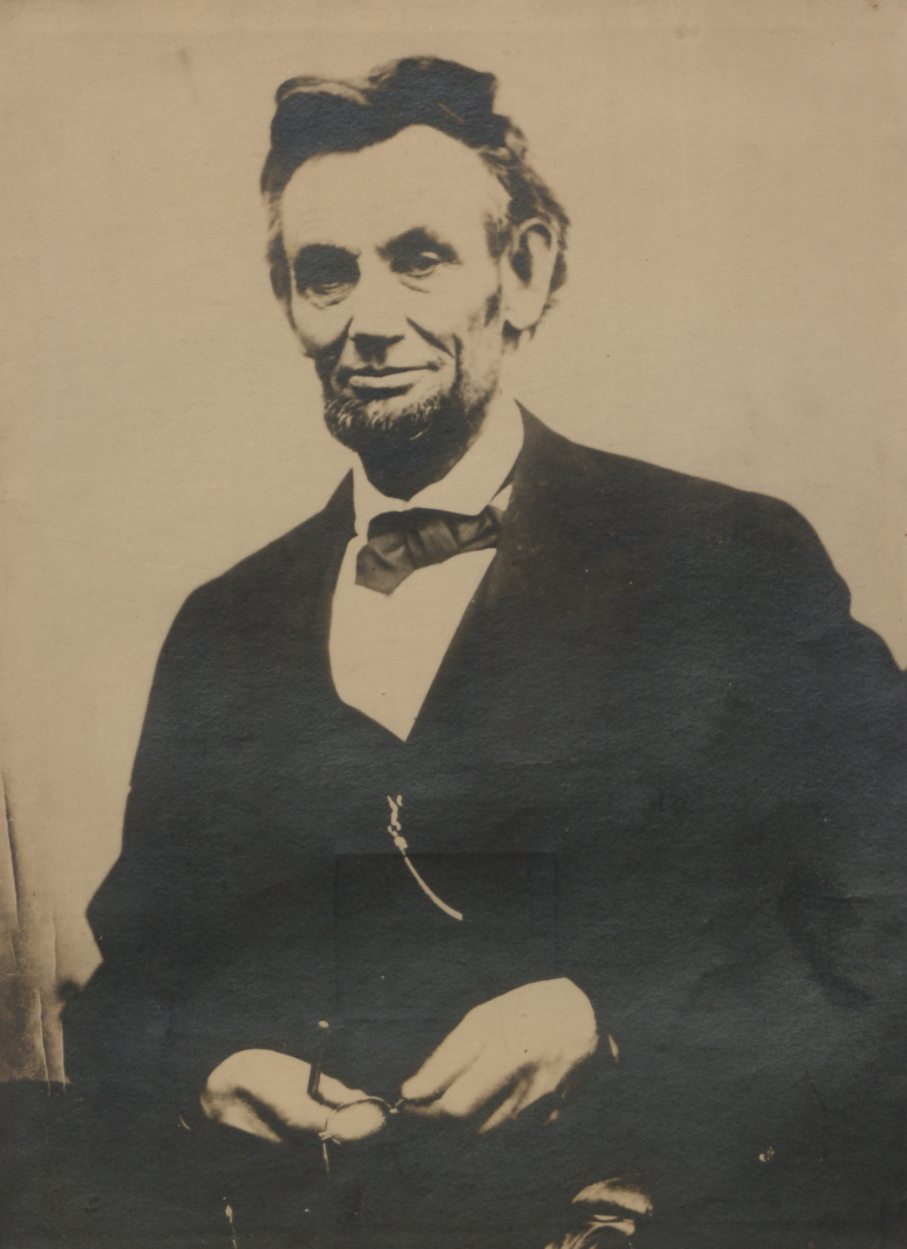 Original caption: “Abraham Lincoln.”